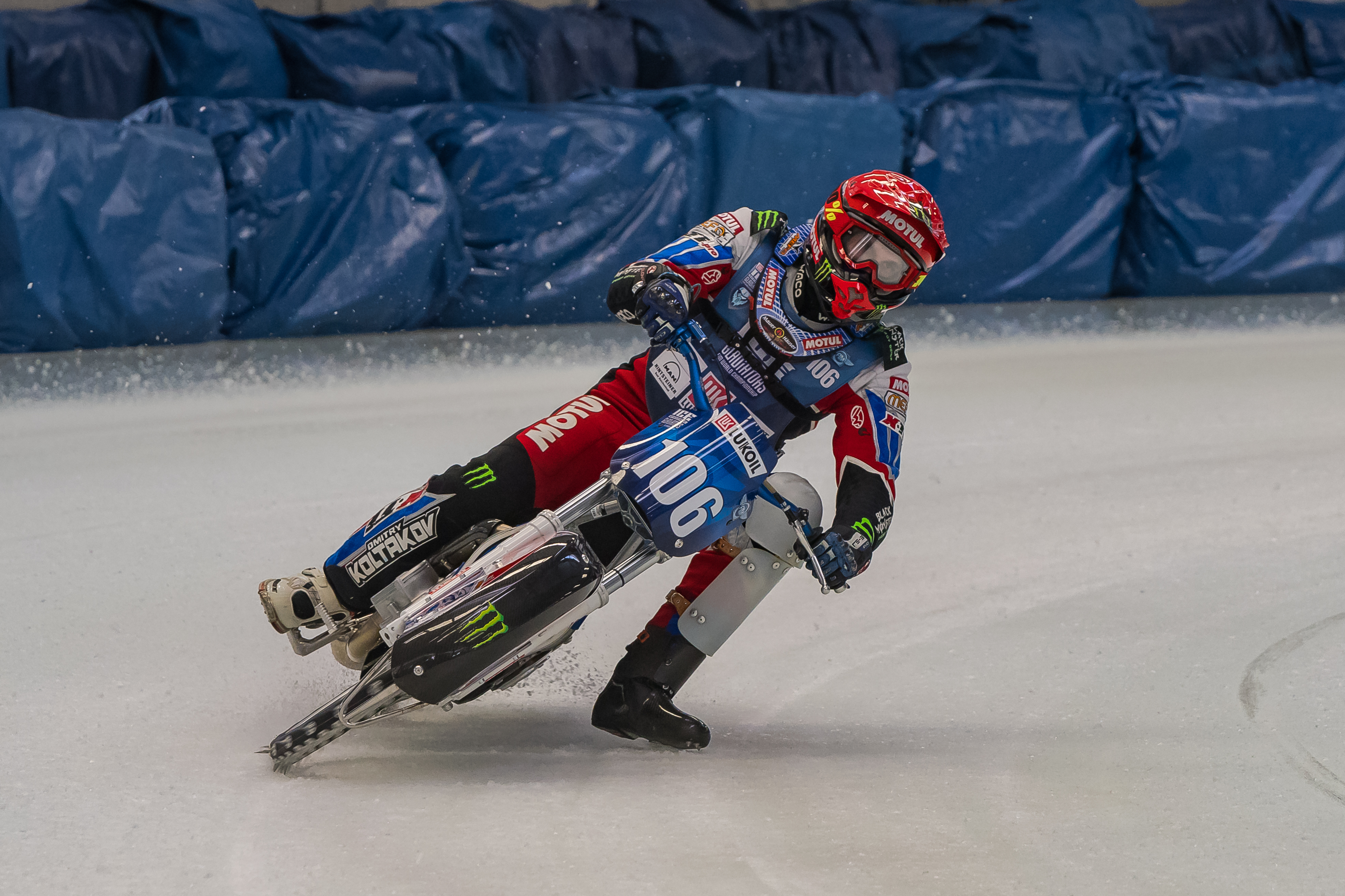 2018 FIM Ice Speedway Gladiators World Championship Final 4 - Inzell, Germany; Practice on March 16, 2018; Dimitry KOLTAKOV